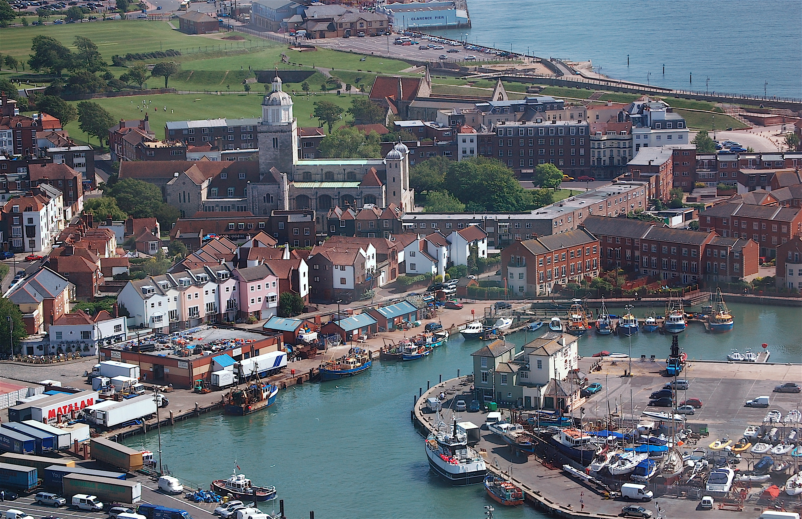 Old Portsmouth, View from Spinnaker Tower toward Portsmouth Cathedral and Southsea